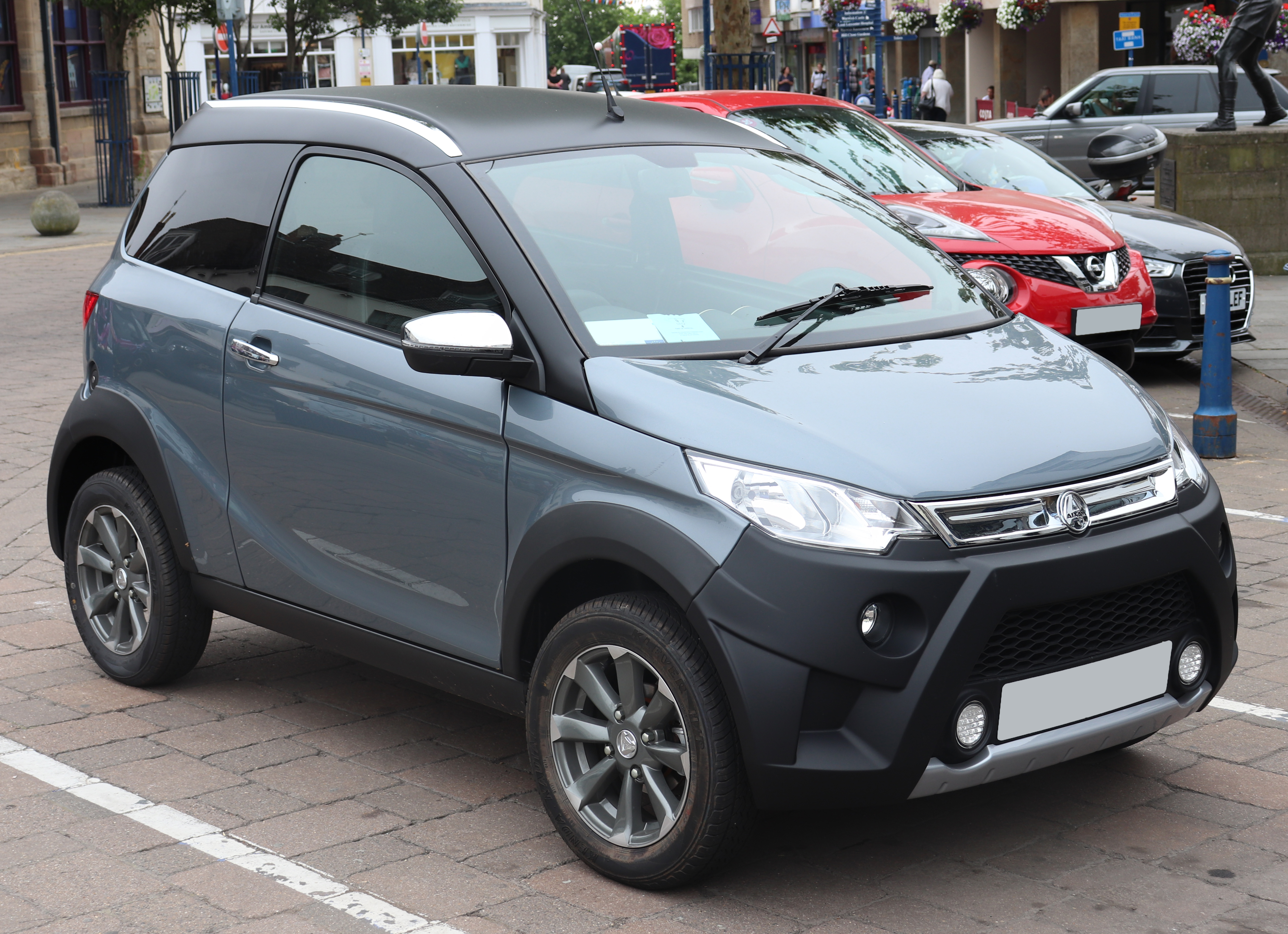 2018 Aixam Crossline Premium GT CVT 600cc Front Taken in Warwick